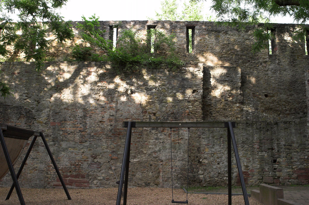 Remains of the medieval city wall at lane Schlossergasse, old town of Mainz, Rhineland-Palatinate, Germany